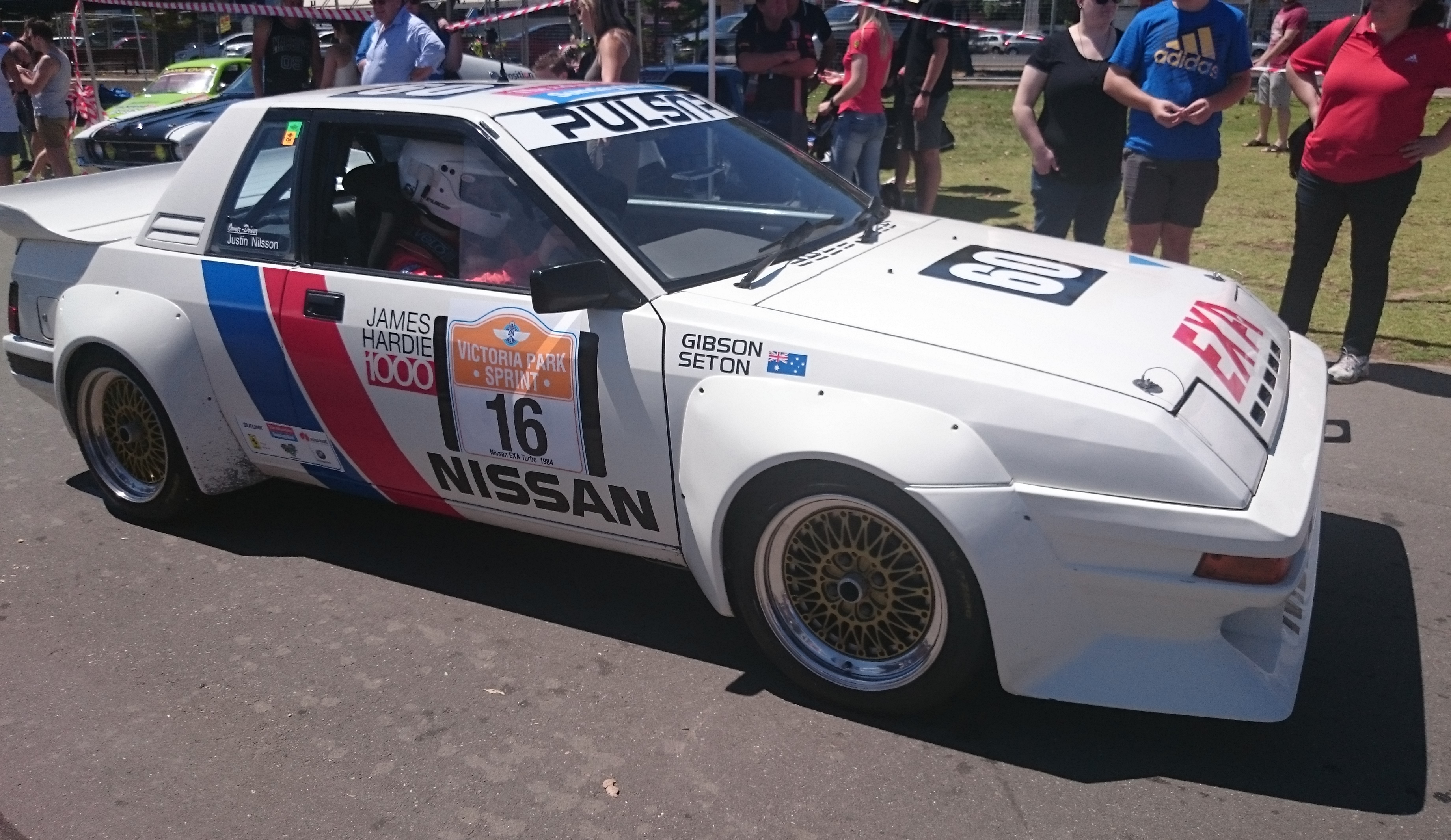 Nissan Pulsar EXA at the 2015 Adelaide Motorsport Festival. The car is presented in its 1984 James Hardie 1000 colours, as driven by Christine Gibson and Glenn Seton.